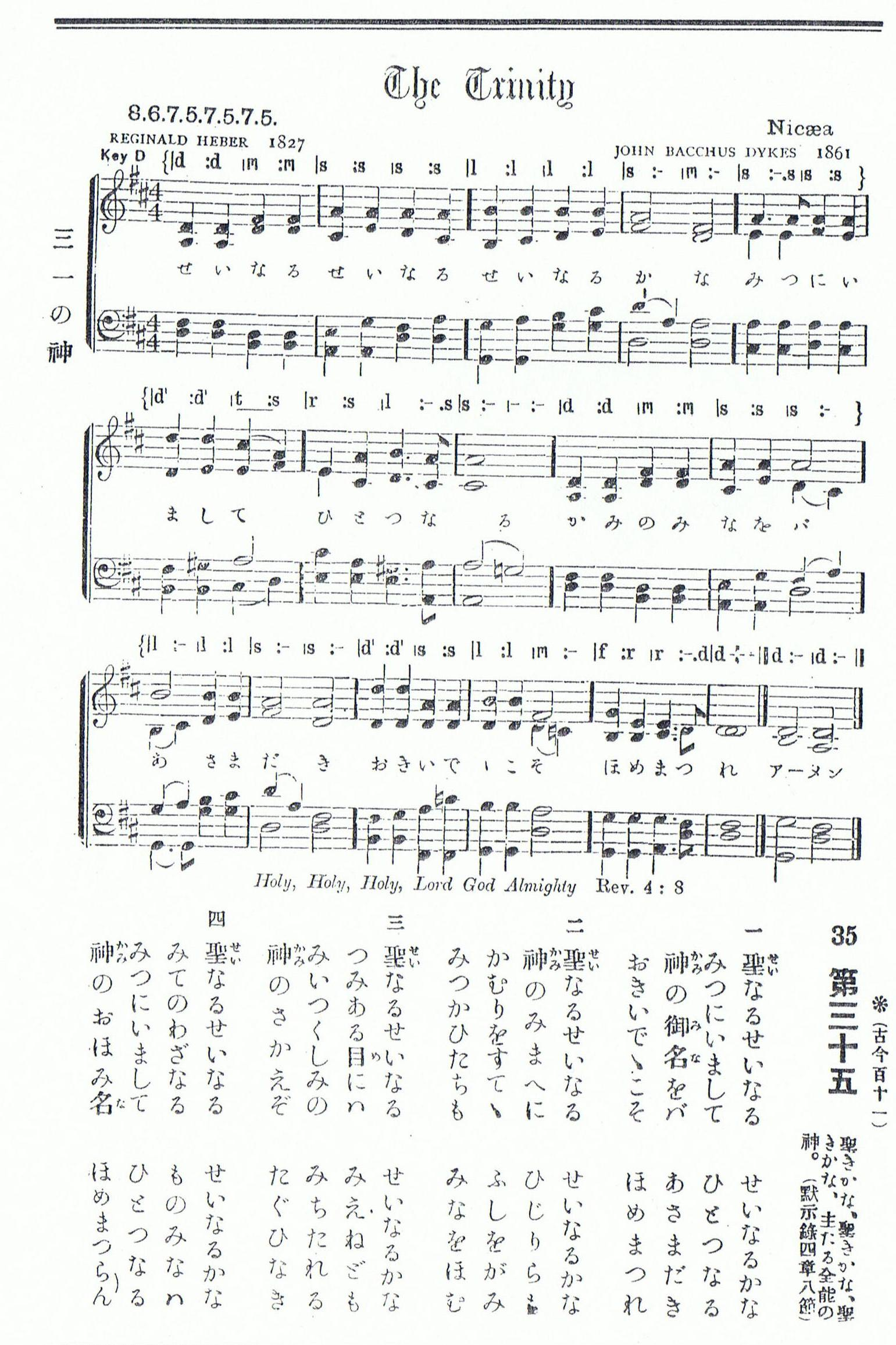 Holy, Holy, Holy